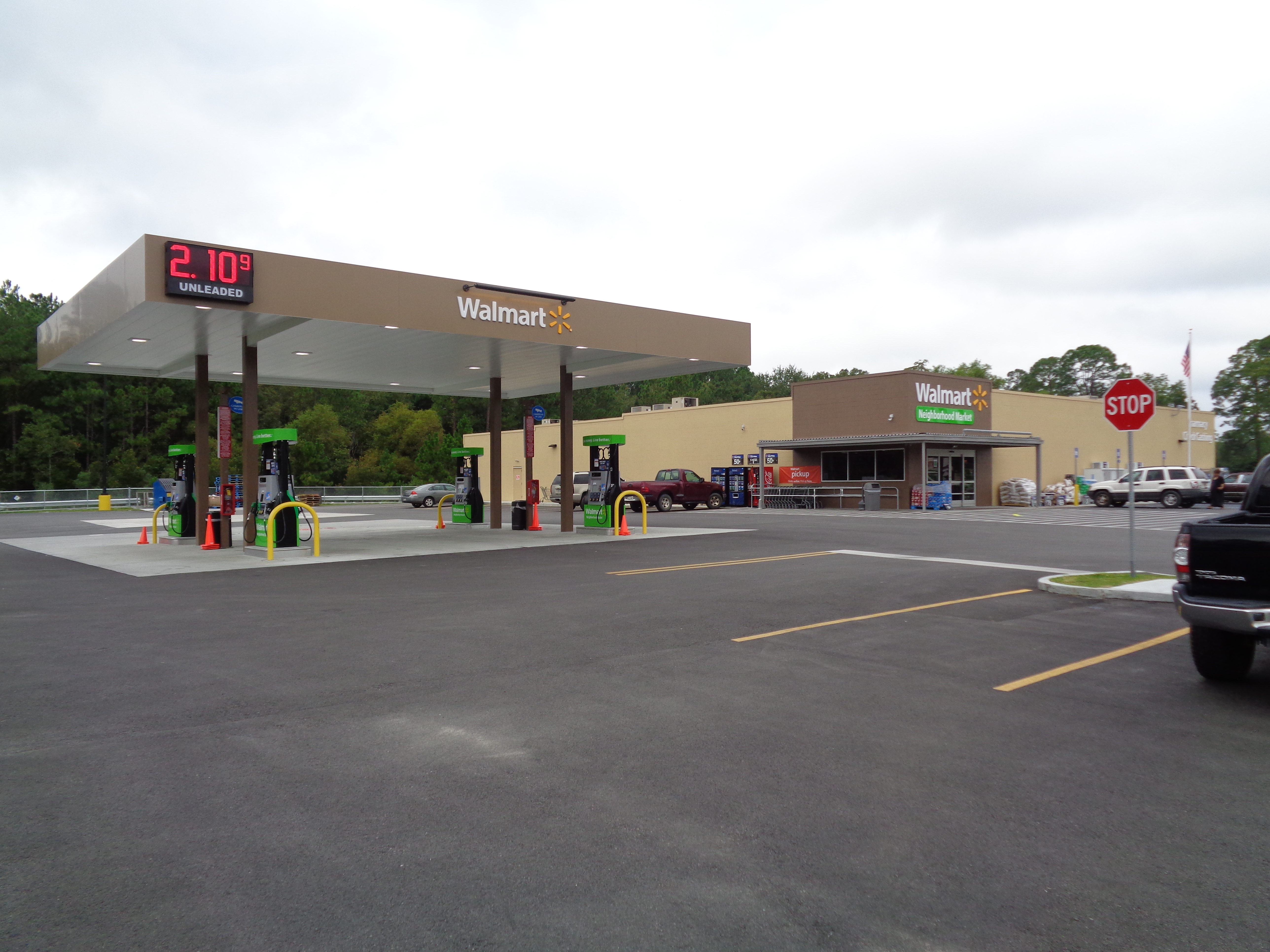 Walmart Neighborhood Market, Alma, Bacon County, Georgia